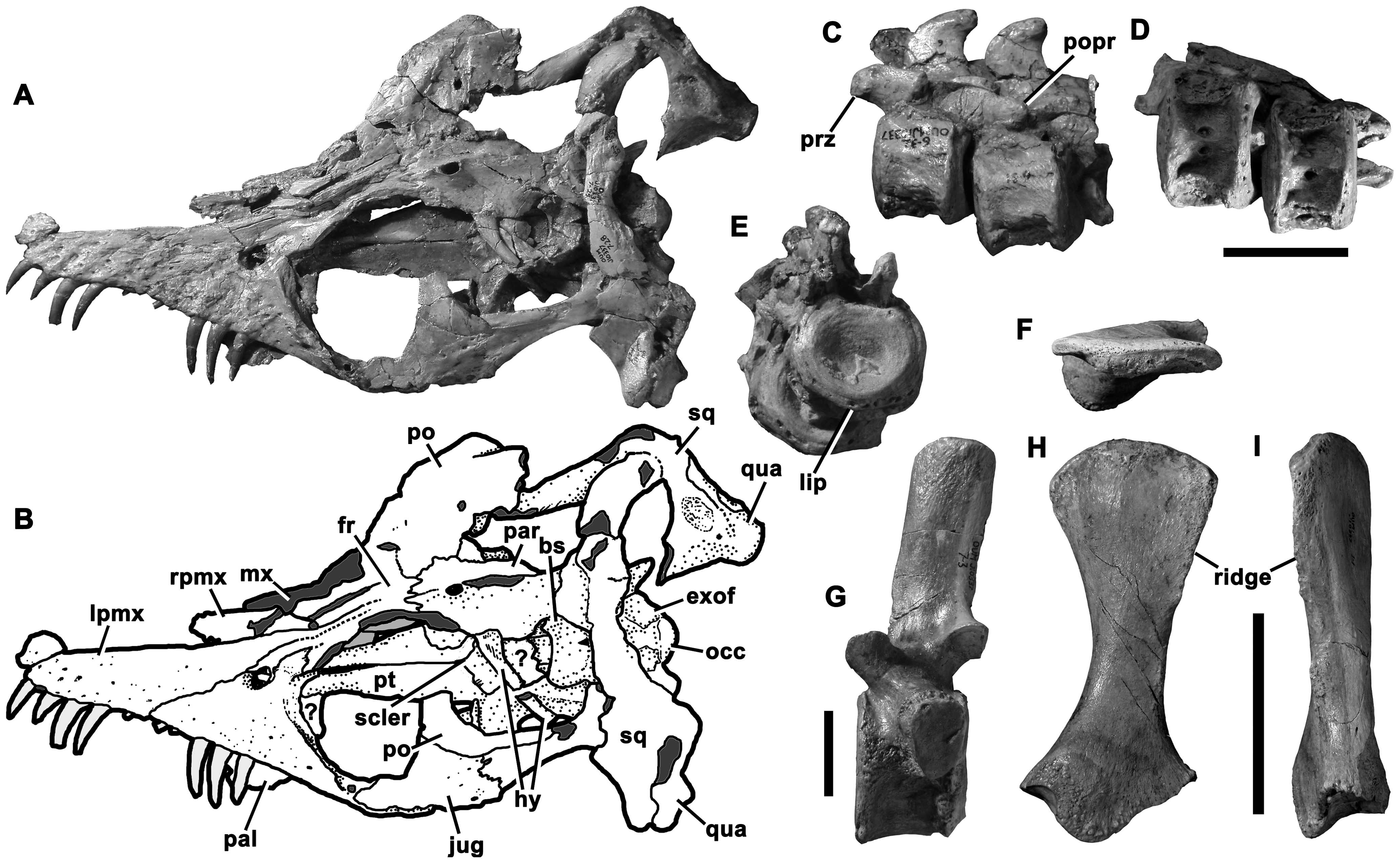 A–B, skull in dorsal view, C–E, anterior cervical vertebrae in left lateral (C), ventral (D) and anterior (E) views, F, H–I, left ilium in dorsal (F), lateral (H) and posterior (I) views, G, ‘pectoral’ vertebra; in left lateral view. In line drawing (B), grey tone indicates damage. Abbreviations: bs, basisphenoid; exof, exoccipital facet of basioccipital; jug, jugal; fr, frontal; hy, hyoid; lpmx, left premaxilla; mx, maxilla; occ, occipital condyle; pal, palatine; par, parietal; po, postorbital; popr, posterolateral process of prezygapophysis; prz, prezygapophysis; pt, pterygoid; qua, quadrate; rmx, right maxilla; rpmx, right premaxilla; scler, sclerotic ring; sq, squamosal. Scale bars equal 50 mm (A–B, F, H–I) and 20 mm (C–E, G).